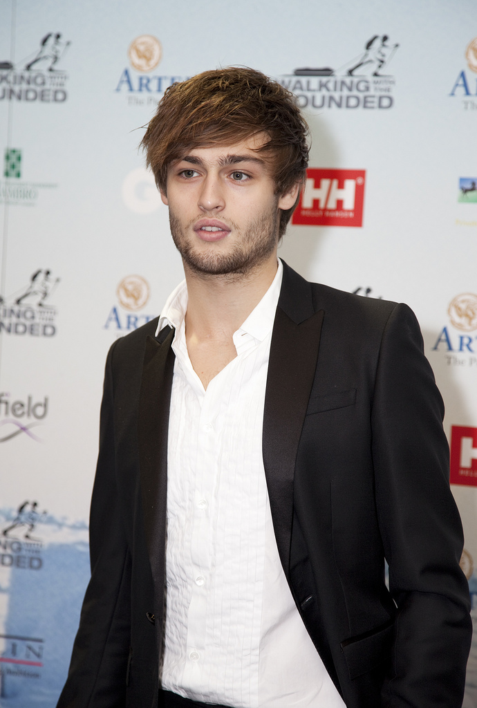 Douglas Booth at Ice & Diamonds Ball in February 2011